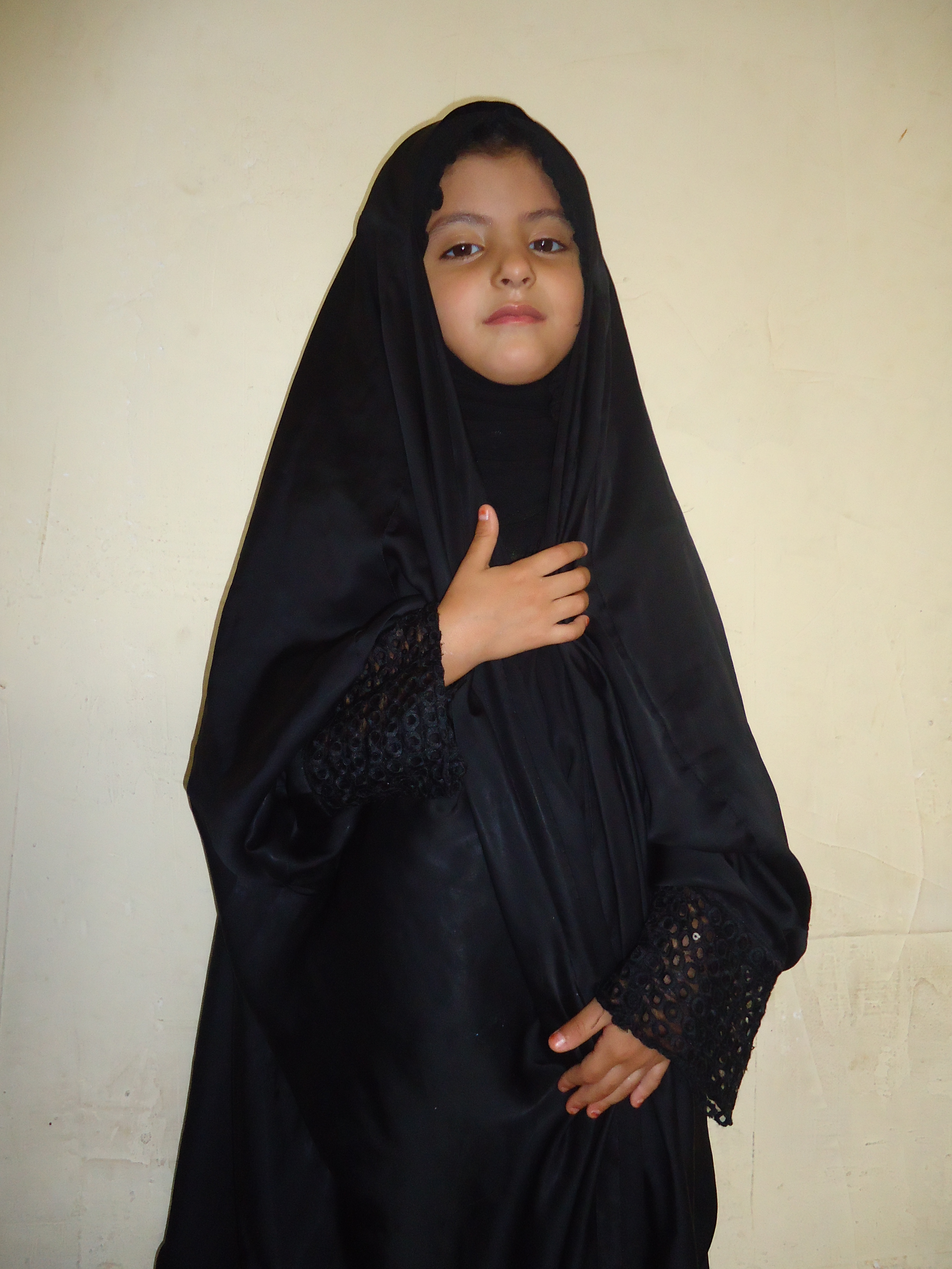 Arab girl wearing abaya